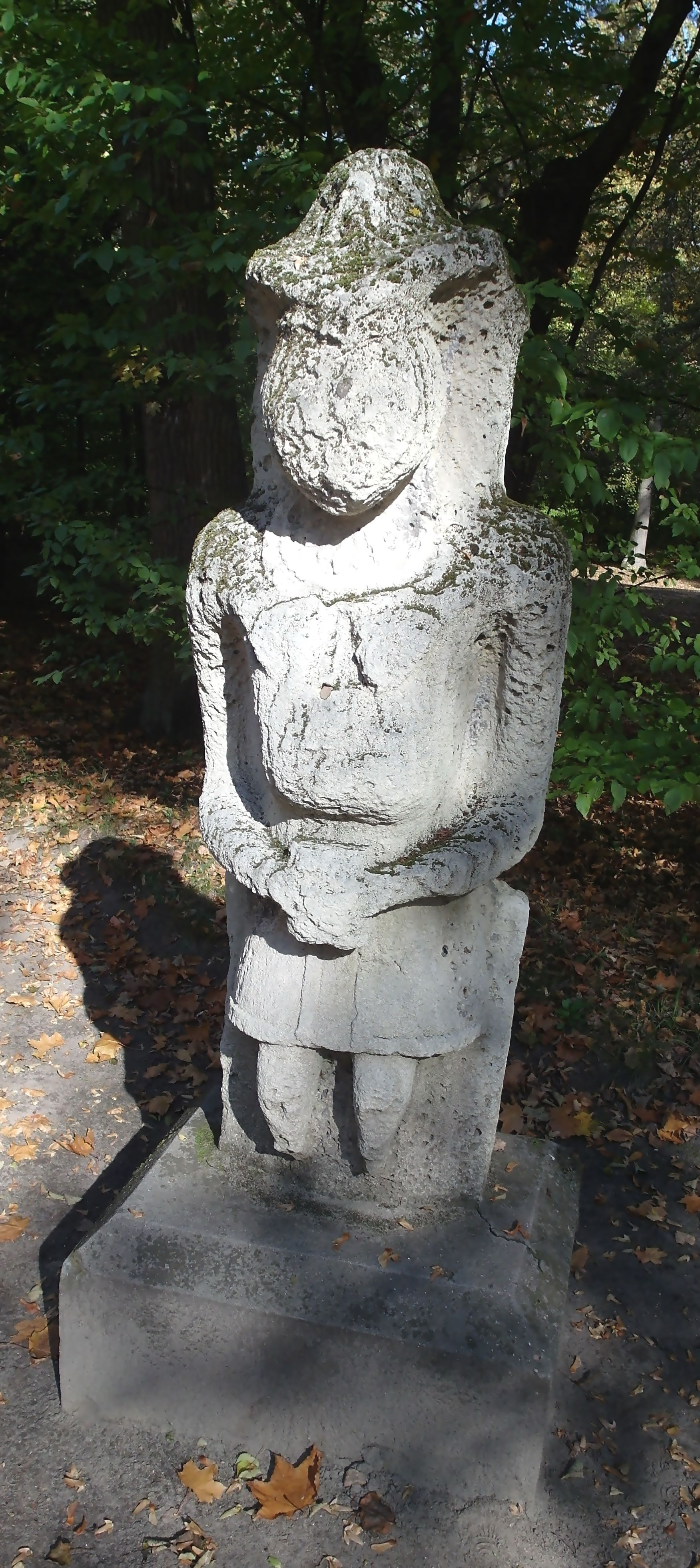 Polovtsi statue in Nieborów, Poland